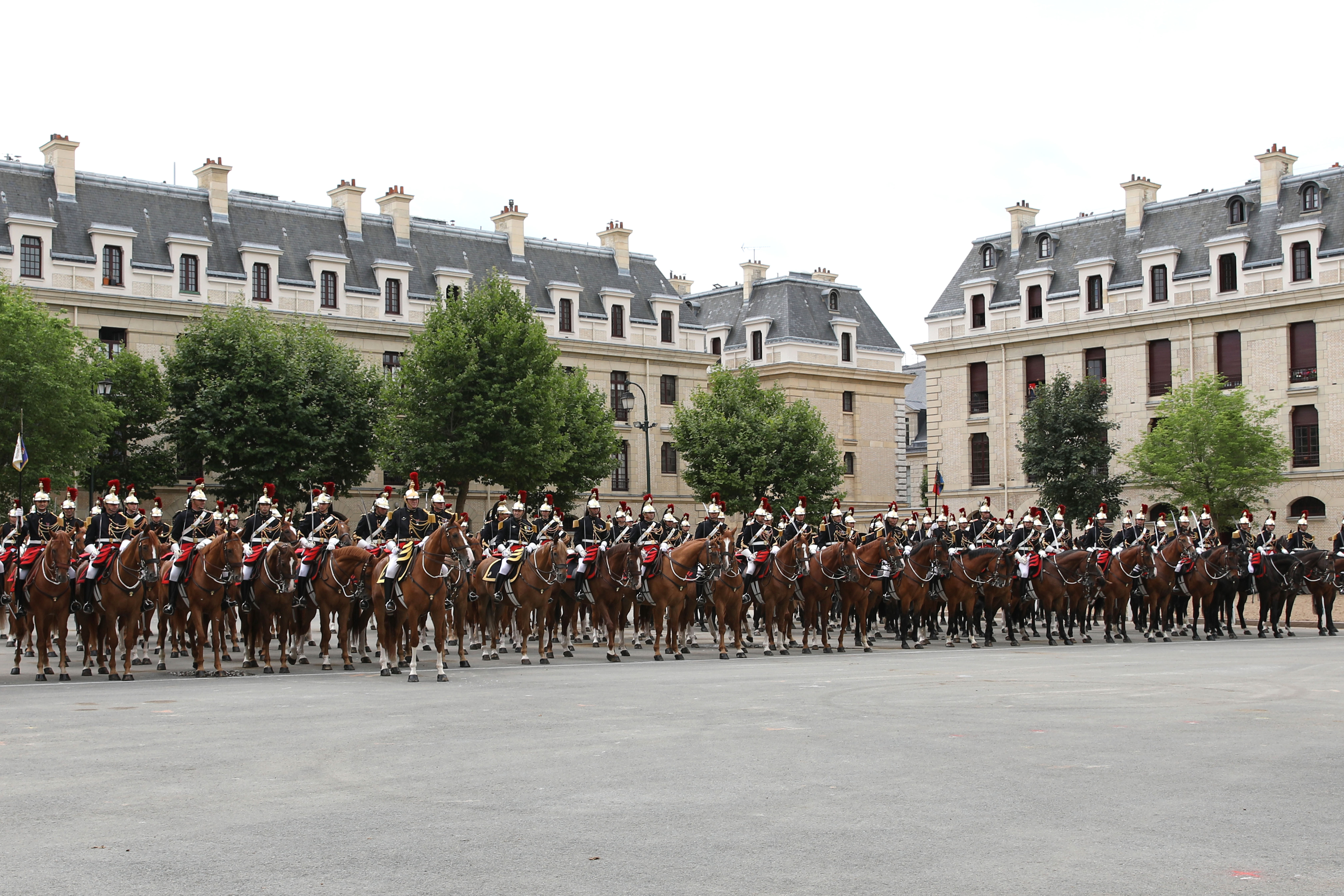 A French Republican Guard cavalry squadron - July 14, 2017